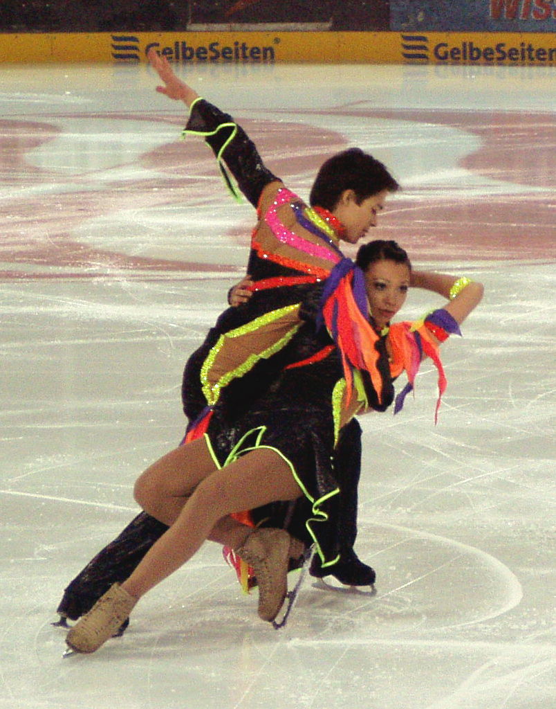 Christina and William Beier at the free program at the German championships 2006 in Berlin